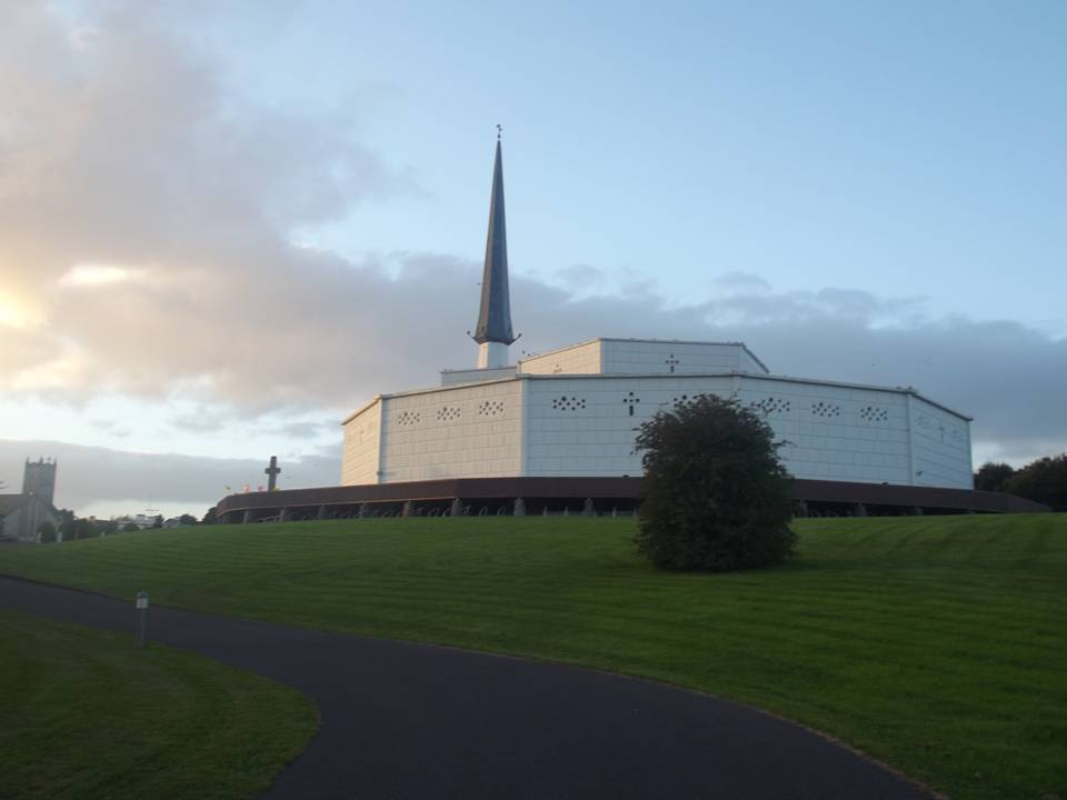 Knock Basilica and Shrine.